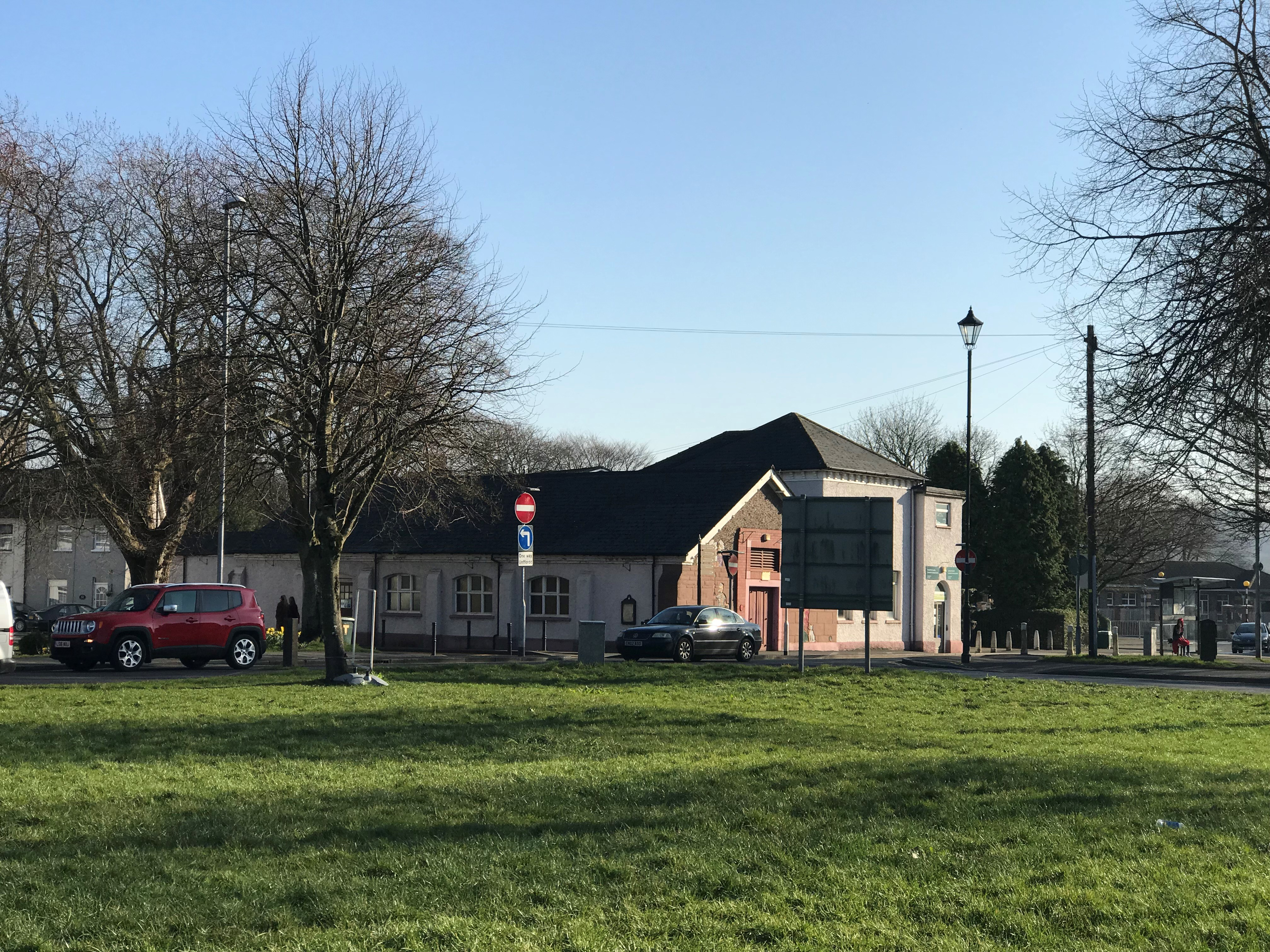 The Goldcroft Common area of the town of Caerleon, Wales. In the background is Caerleon Town Hall.